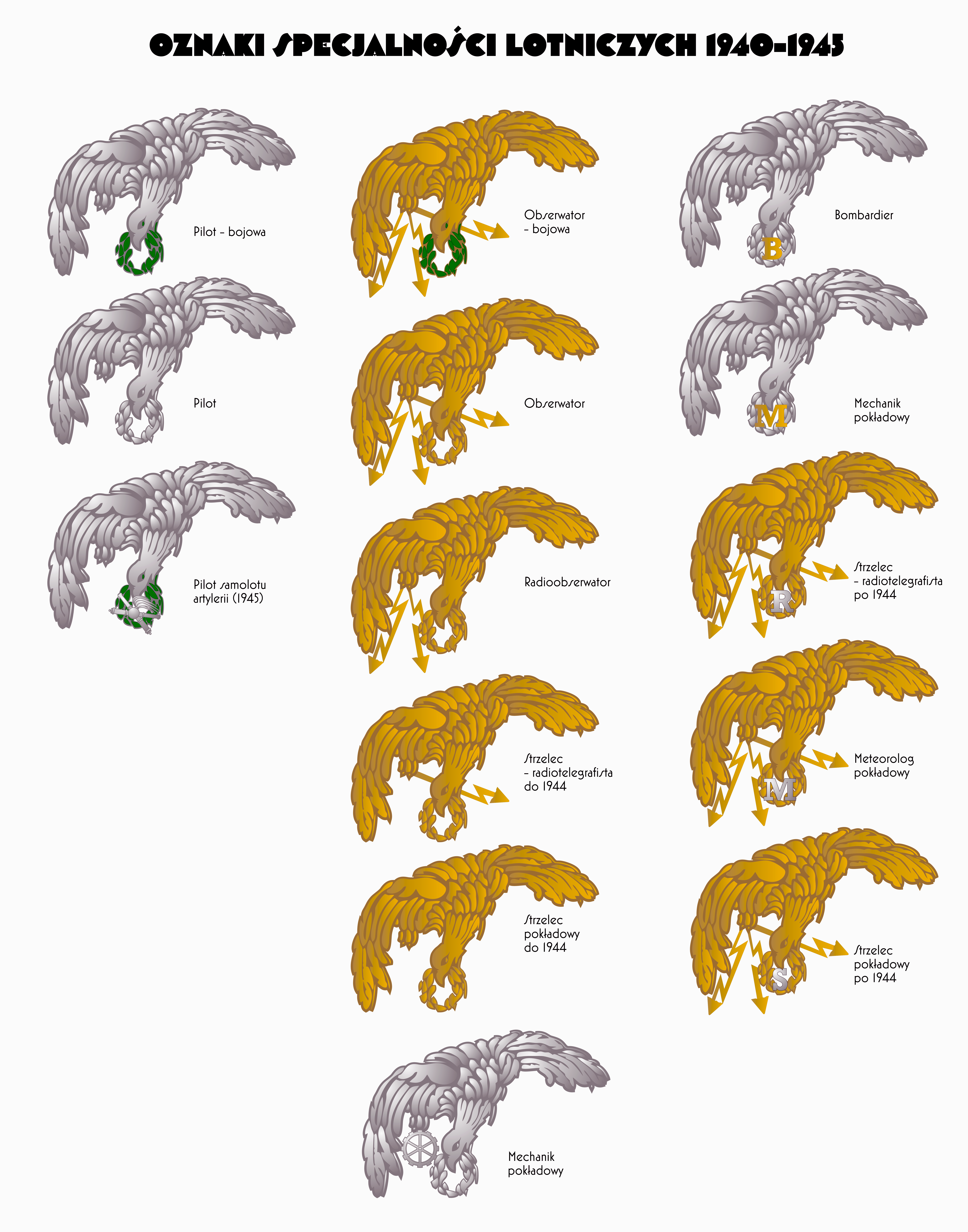 Aviator's badges of Polish Air Forces in exile 1940-1945